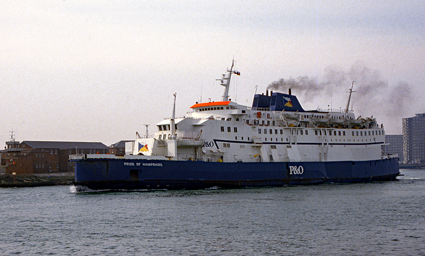 P&O ferry, Pride of Hampshire, departing from Portsmouth Other names: Viking Venturer, Pride of El Salam 2, Oujda Information about the vessel may be found at IMO 7358286.A ship can change name and flag state through time, but the IMO number remains the same through the hull's entire lifetime. As a result, it can be useful to identify a ship by using the IMO number. Scanned from a 35mm Fujichrome slide.